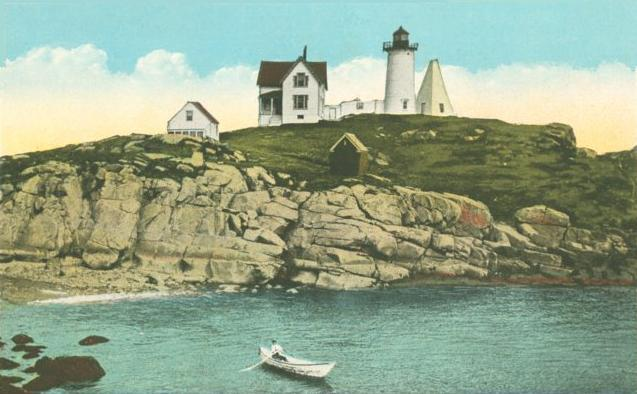 Cape Neddick Lighthouse (Nubble Light), York, ME; from a c. 1920 postcard.